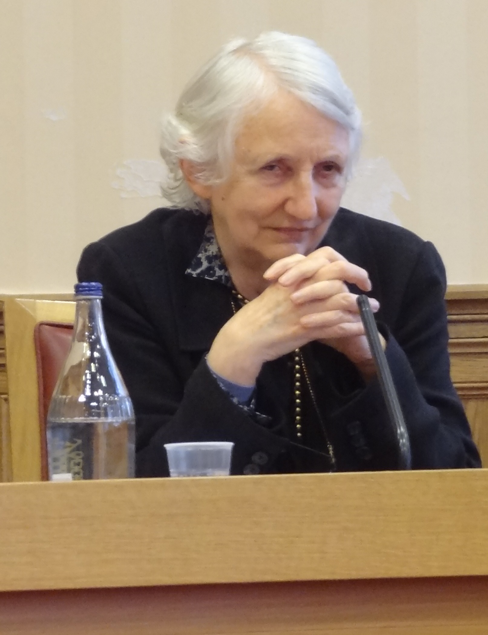 Onora O'Neill chairing the WCIT Colloquium on the Ethical and Spiritual Implications of the Internet at the House of Lords 26 June 2013